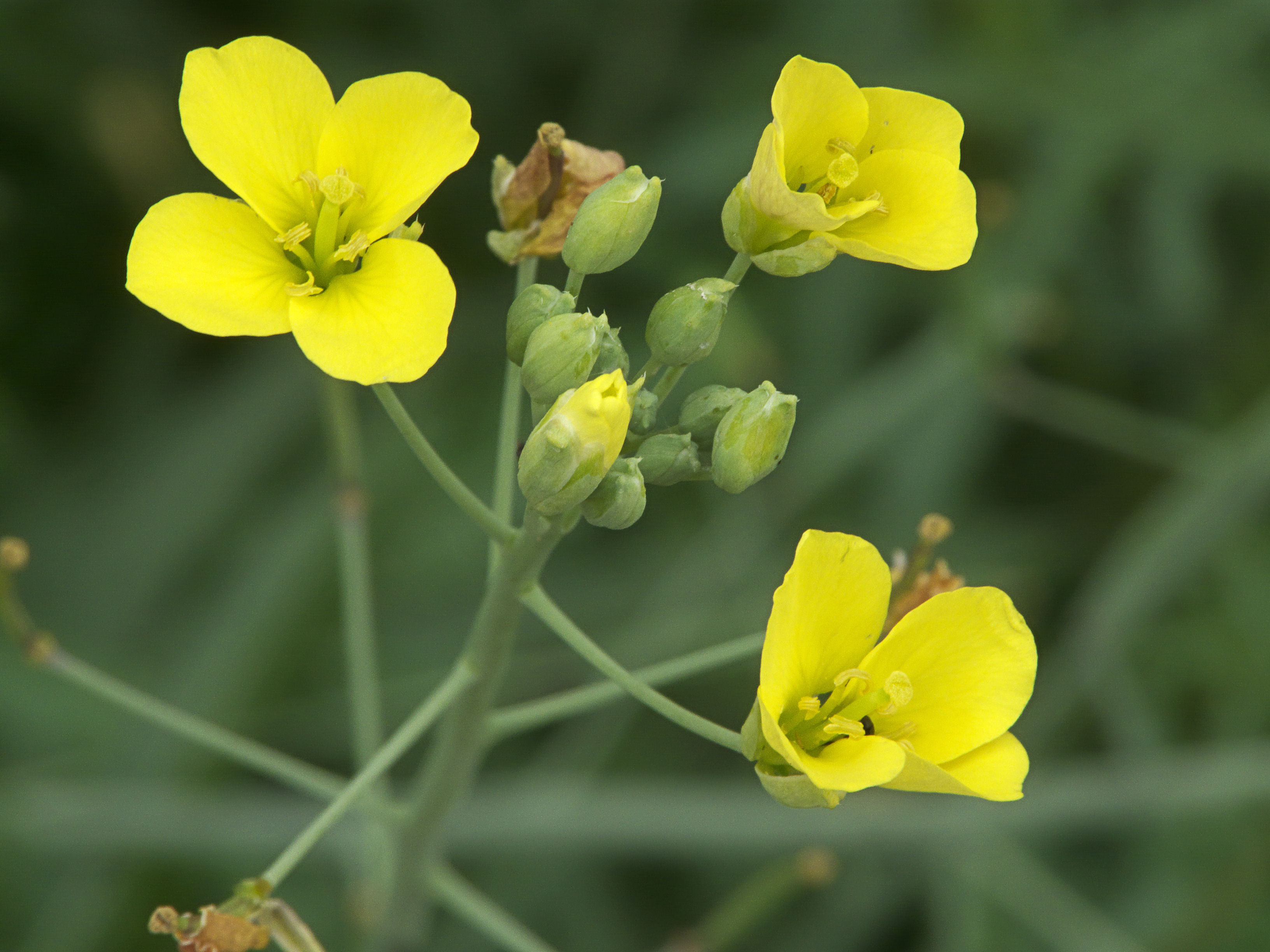 Diplotaxis tenuifolia inflorescens